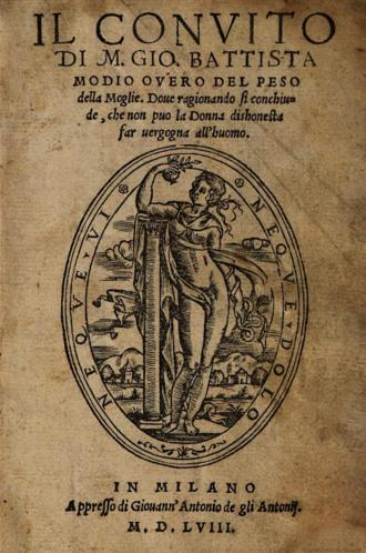 Page with title of "Il Convito overo del peso della moglie" book